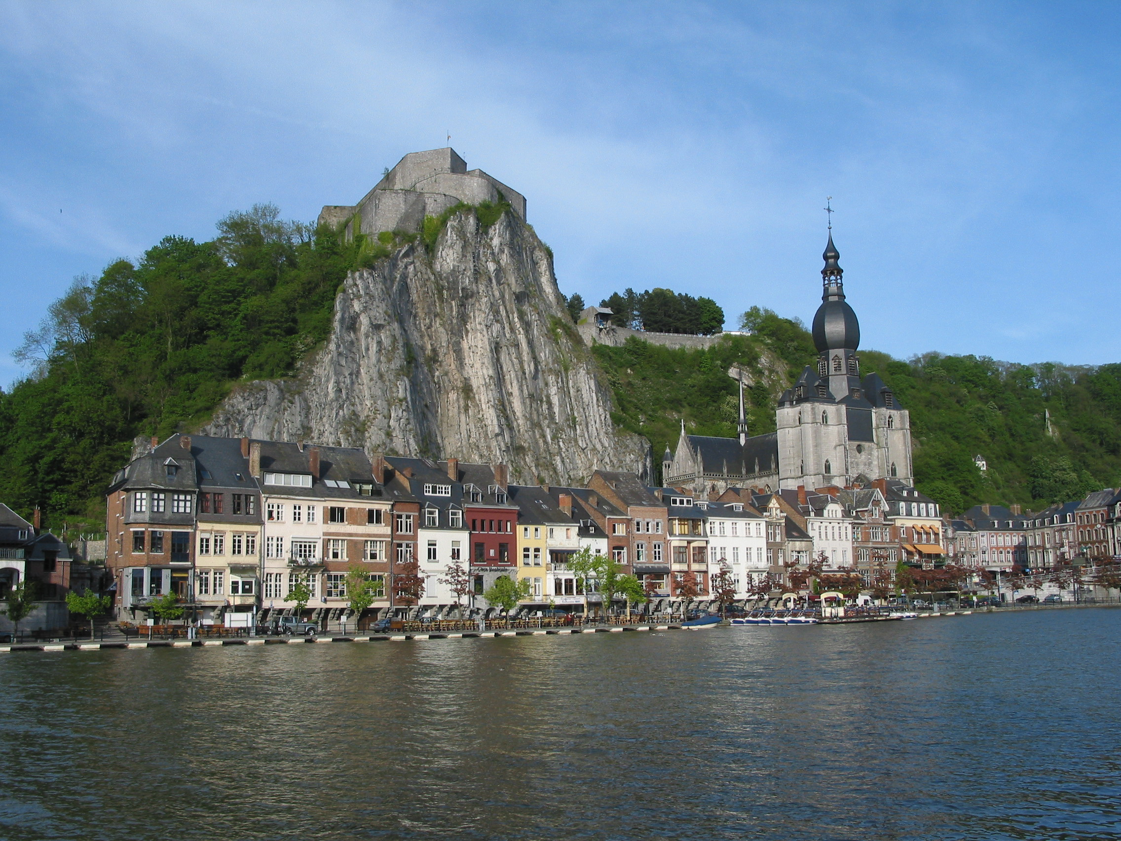 Dinant (Belgium), the Meuse (river), , the city, the collegiate church of Notre-Dame and the Citadel.